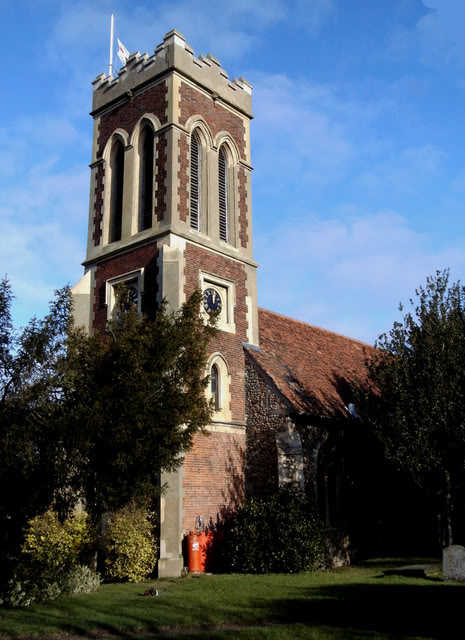 West tower of All Saints' parish church, Messing, Essex, England, seen from the southwest